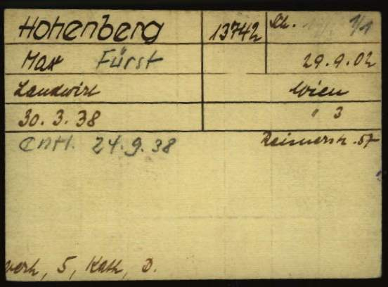 Registration card of Maximilian Hohenberg as a prisoner at Dachau Nazi Concentration Camp. Penciled addition, "Fürst", identifies him as a Prince.